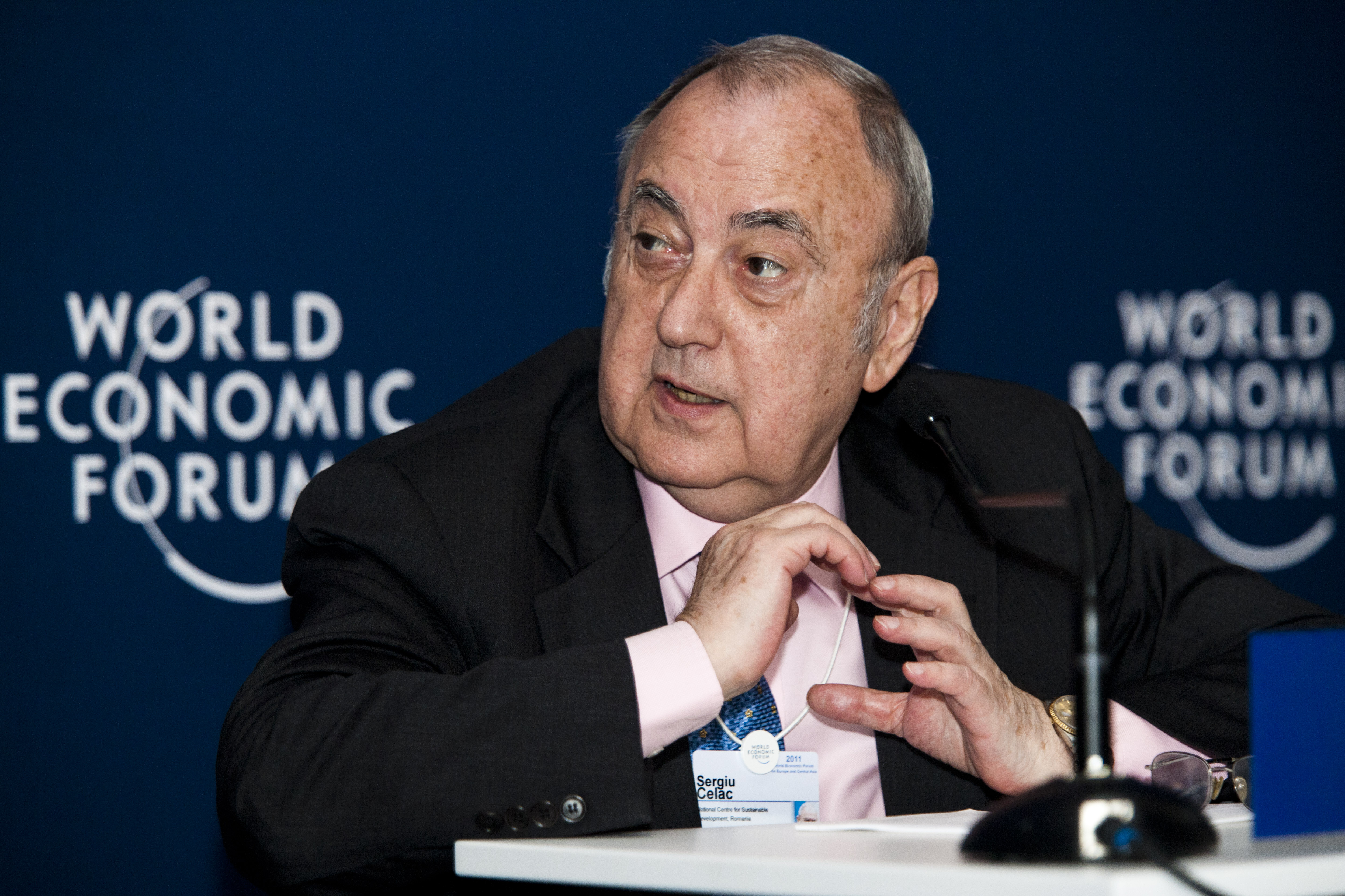 VIENNA/AUSTRIA, 8JUN11 - Sergiu Celac - Senior Adviser - National Centre for Sustainable Development - Romania - at the World Economic Forum on Europe and Central Asia held in Vienna, Austria, June 8, 2011. Copyright World Economic Forum/Photo by Benedikt Loebell Removed HTML tags